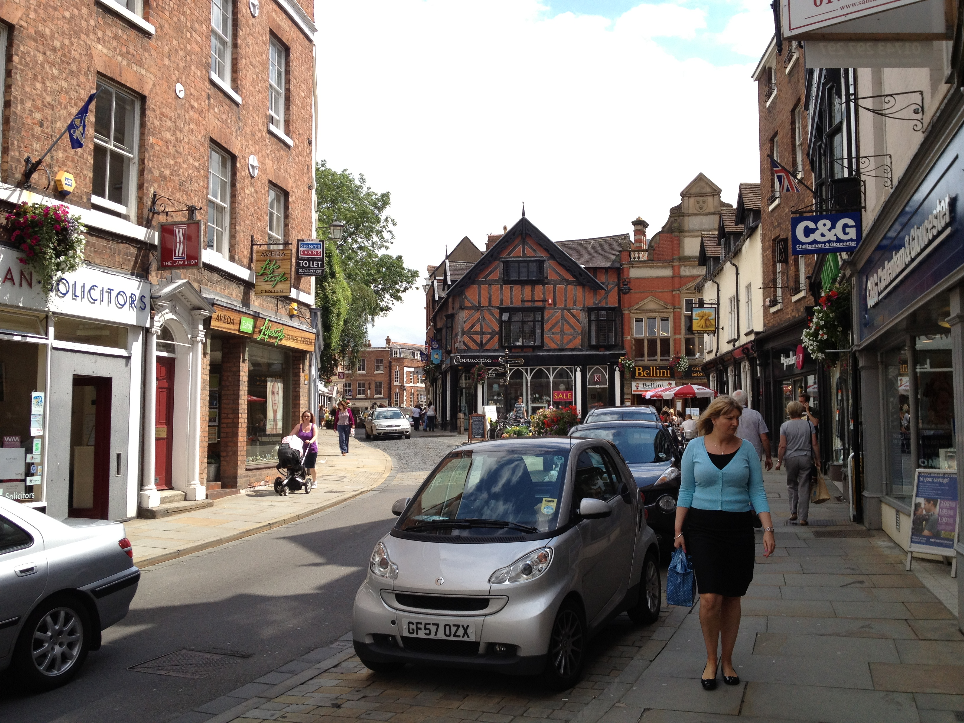 The High Street in Shrewsbury